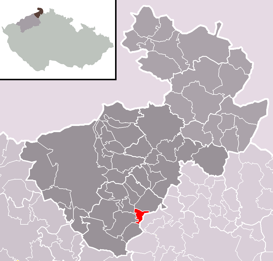 Location of Starý Šachov municipality within Děčín District and administrative area of Děčín as a Municipality with Extended Competence.